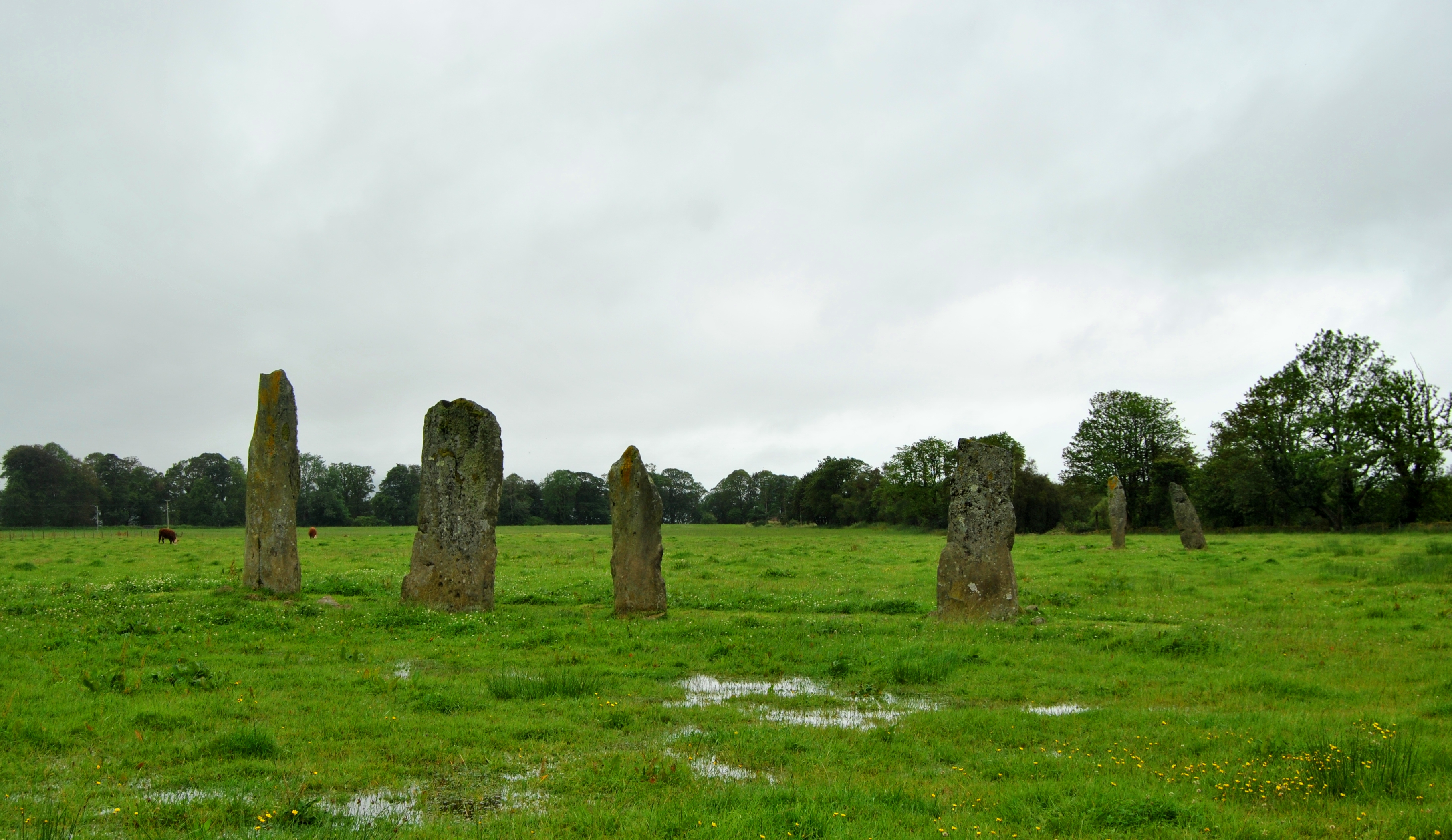 Neolithic standing stones, Kilmartin glen - Scotland